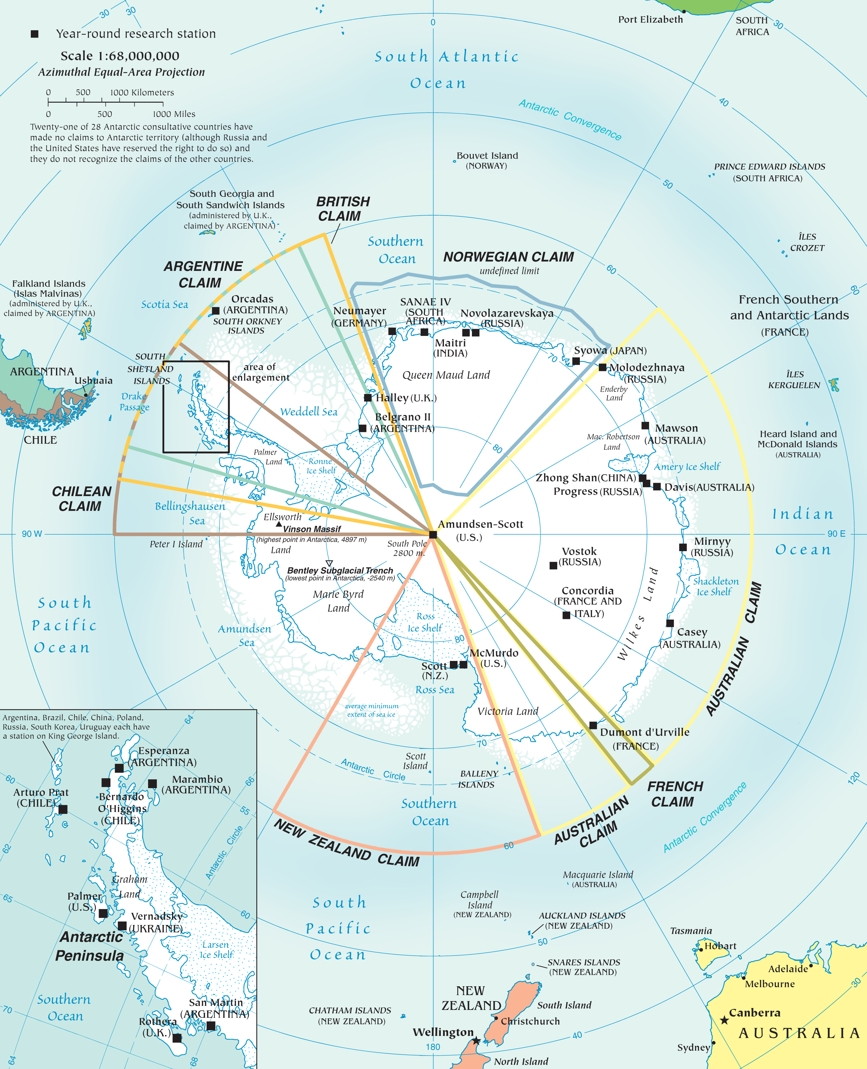 Map of the antarctic region Twenty-one of 28 Antarctic consultative countries have made no claims to Antarctic territory (although Russia and the United States have reserved the right to do so) and they do not recognize the claims of the other countries.